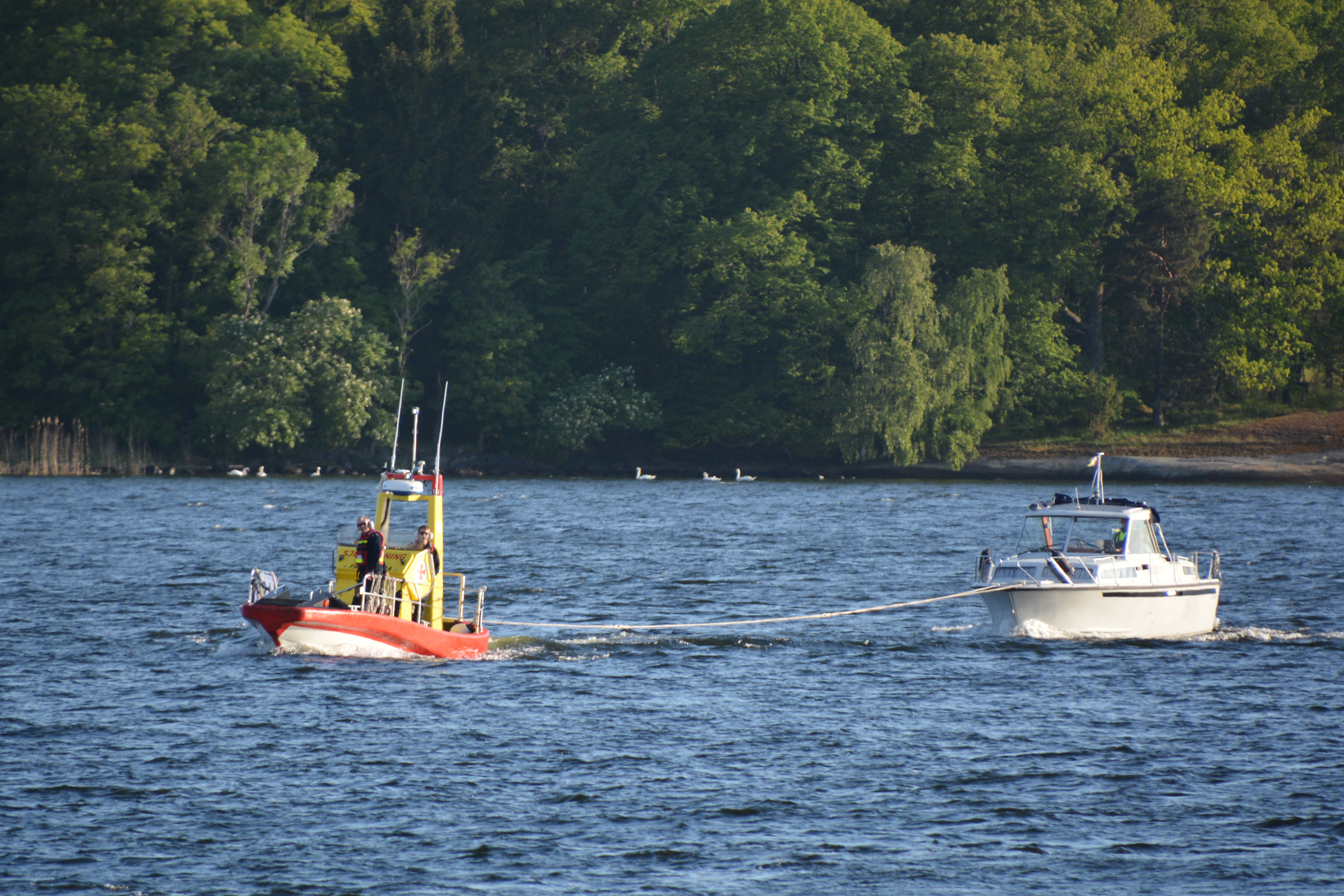 Rescue Pantamera tows a pleasure boat to harbour after engine failure, south of Vaxholm, Sweden